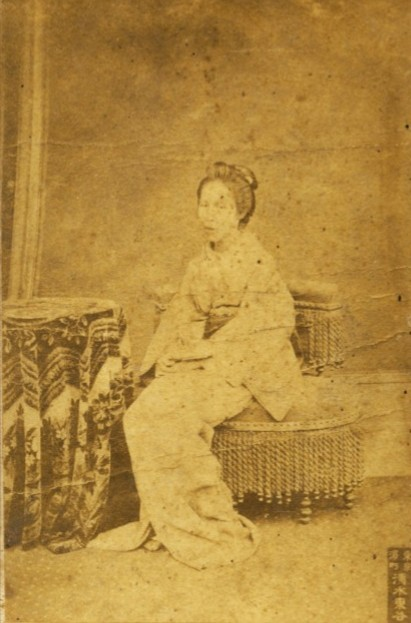 The photograph of Katori Hisa.